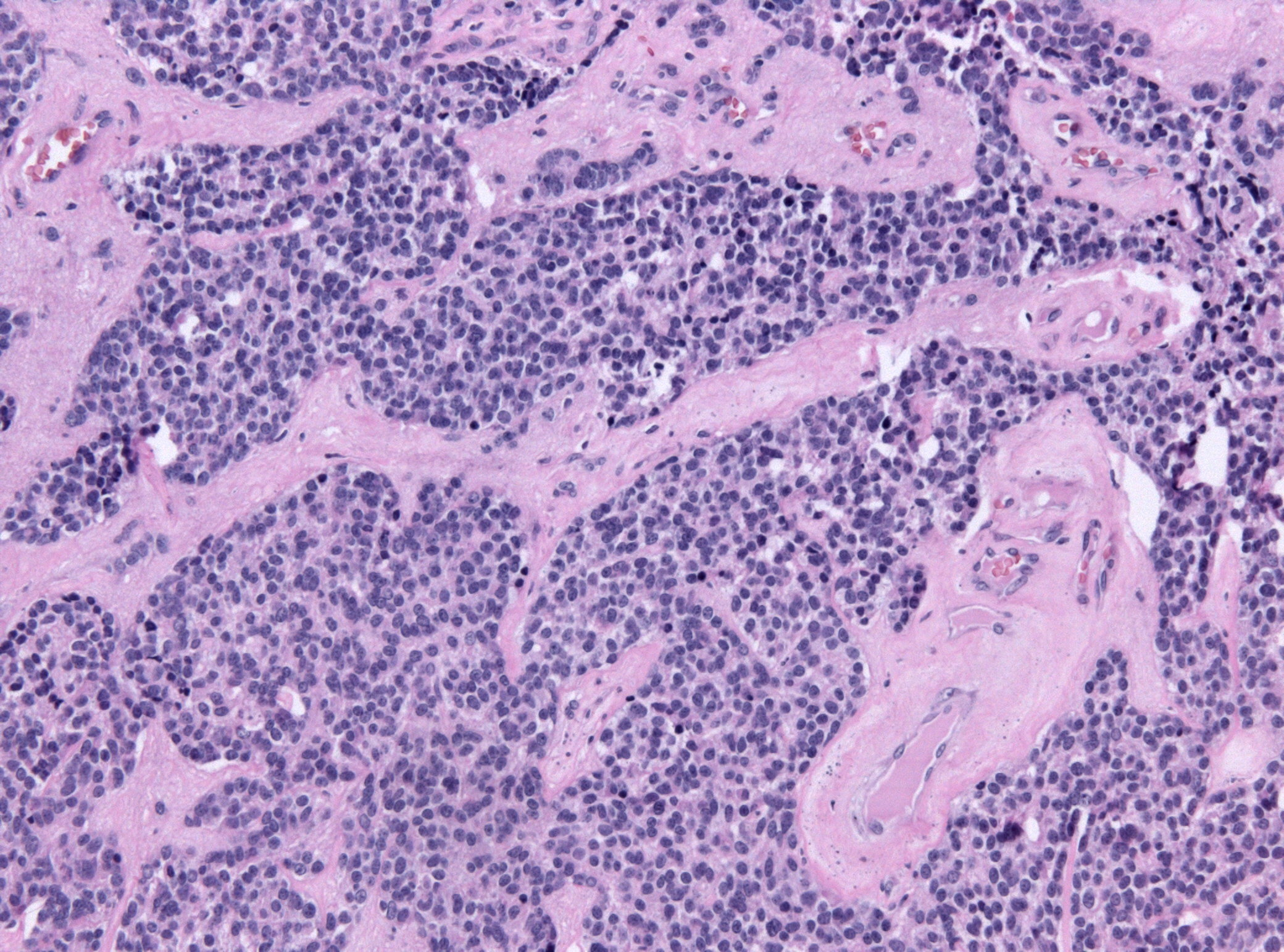 HE stained pathology specimen of a esthesioneuroblastoma (olfactory neuroblastoma) of the nasal cavity.